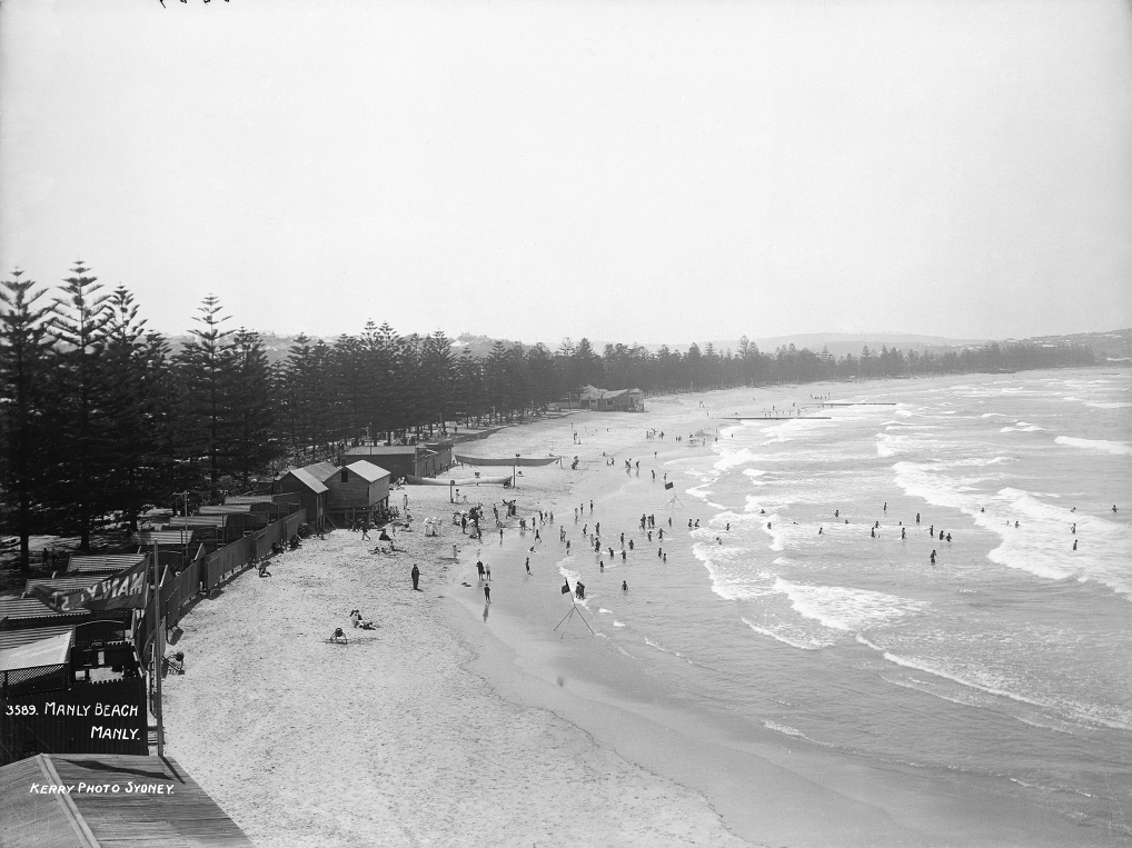 'Beaches' Pictures from The Powerhouse Museum This files was posted to Flickr by The Powerhouse Museum (See their website for further information). Many thanks to the Powerhouse Museum for helping release this wonderful material. This tag does not indicate the copyright status of the attached work. A normal copyright tag is still required. See Commons:Licensing for more information. This image is of Australian origin and is now in the public domain because its term of copyright has expired. According to the Australian Copyright Council (ACC), ACC Information Sheet G023v17 (Duration of copyright) (August 2014). Type of materialCopyright has expired if ... A Photographs or other works published anonymously, under a pseudonym or the creator is unknown:taken or published prior to 1 January 1955 B Photographs (except A):taken prior to 1 January 1955 C Artistic works (except A & B):the creator died before 1 January 1955 D Published editions1 (except A & B):first published more than 25 years ago E Commonwealth or State government owned2 photographs and engravings:taken or published more than 50 years ago and prior to 1 May 1969 1 means the typographical arrangement and layout of a published work. eg. newsprint. 2owned means where a government is the copyright owner as well as would have owned copyright but reached some other agreement with the creator. When using this template, please provide information of where the image was first published and who created it.